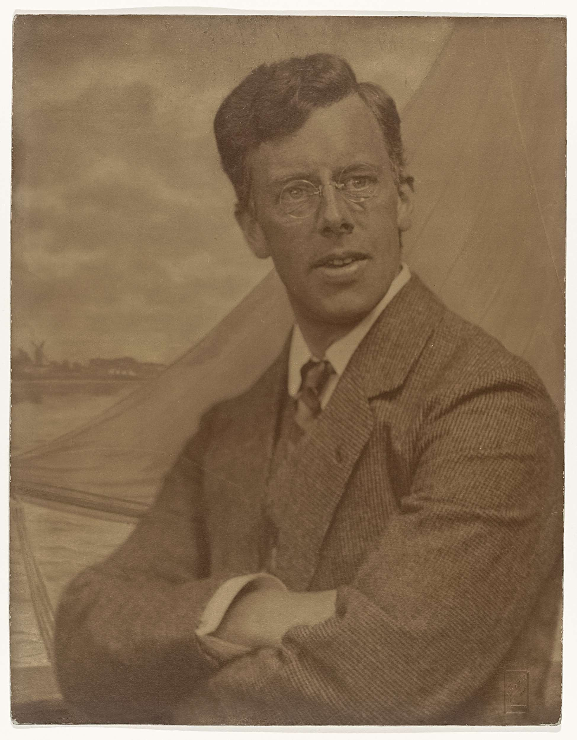 Portrait of Jan Feith by Jacob Merkelbach (1913)